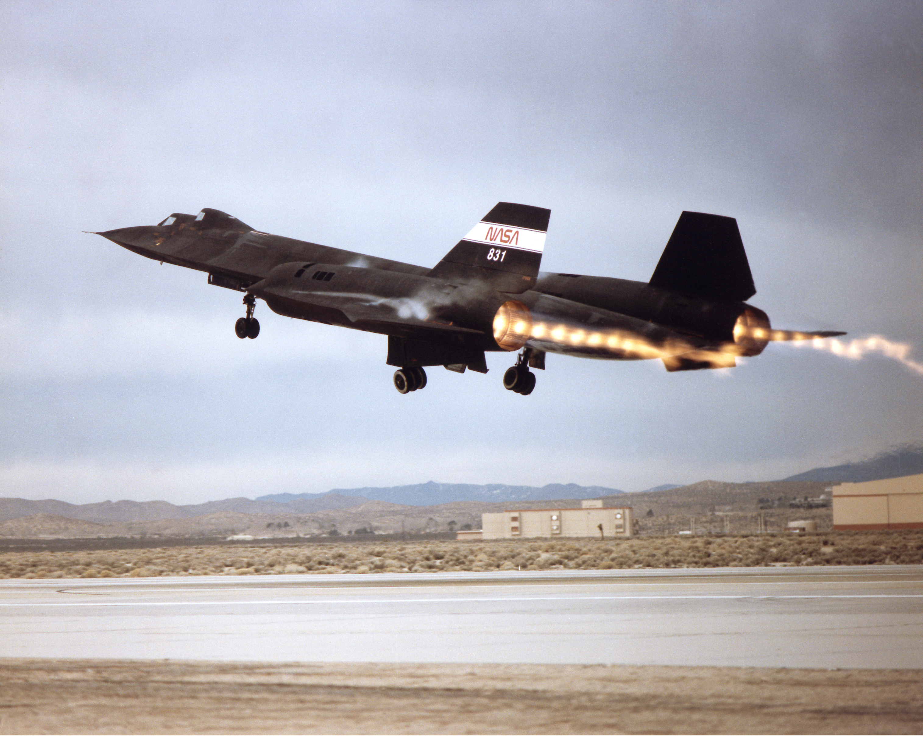 Shock waves stream from the exhaust nozzles of the two engines of NASA's A Lockheed SR-71B as it leaves the runway on a 1992 flight from the Ames-Dryden Flight Research Facility (later, Dryden Flight Research Center), Edwards, California. The twin-cockpit "B" model is one of three SR-71s initially loaned to NASA from the Air Force for use in a high-speed, high-altitude research program.